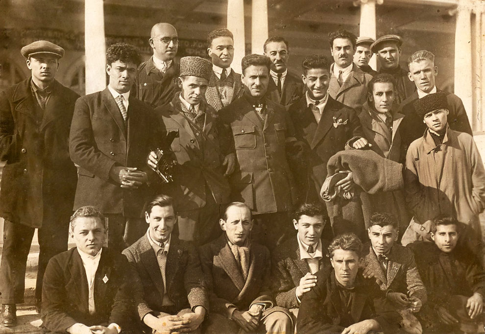 Boxing teams of Azerbaijan and Turkey